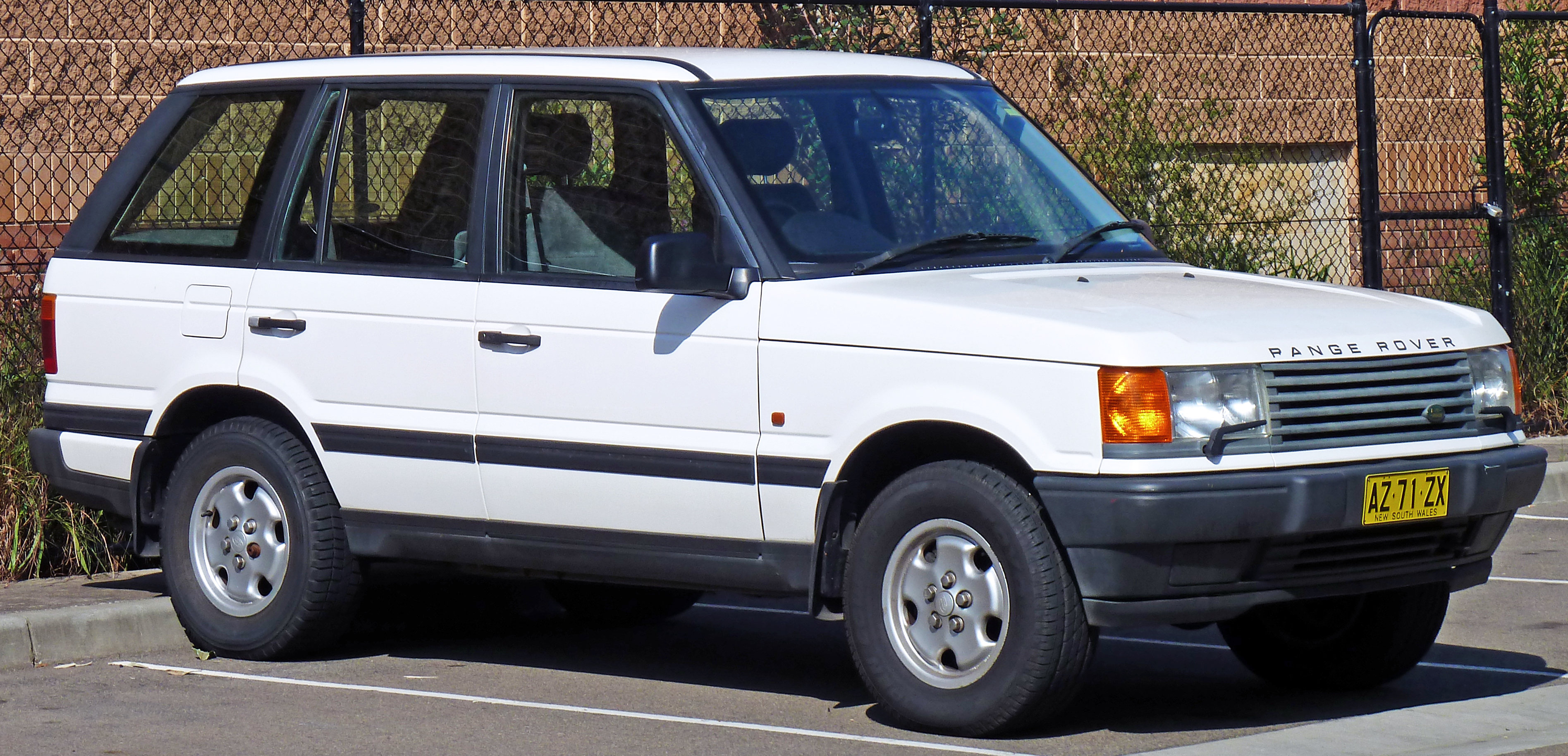 1995 Land Rover Range Rover (P38A) 4.0 SE wagon. Photographed in Cronulla, New South Wales, Australia.